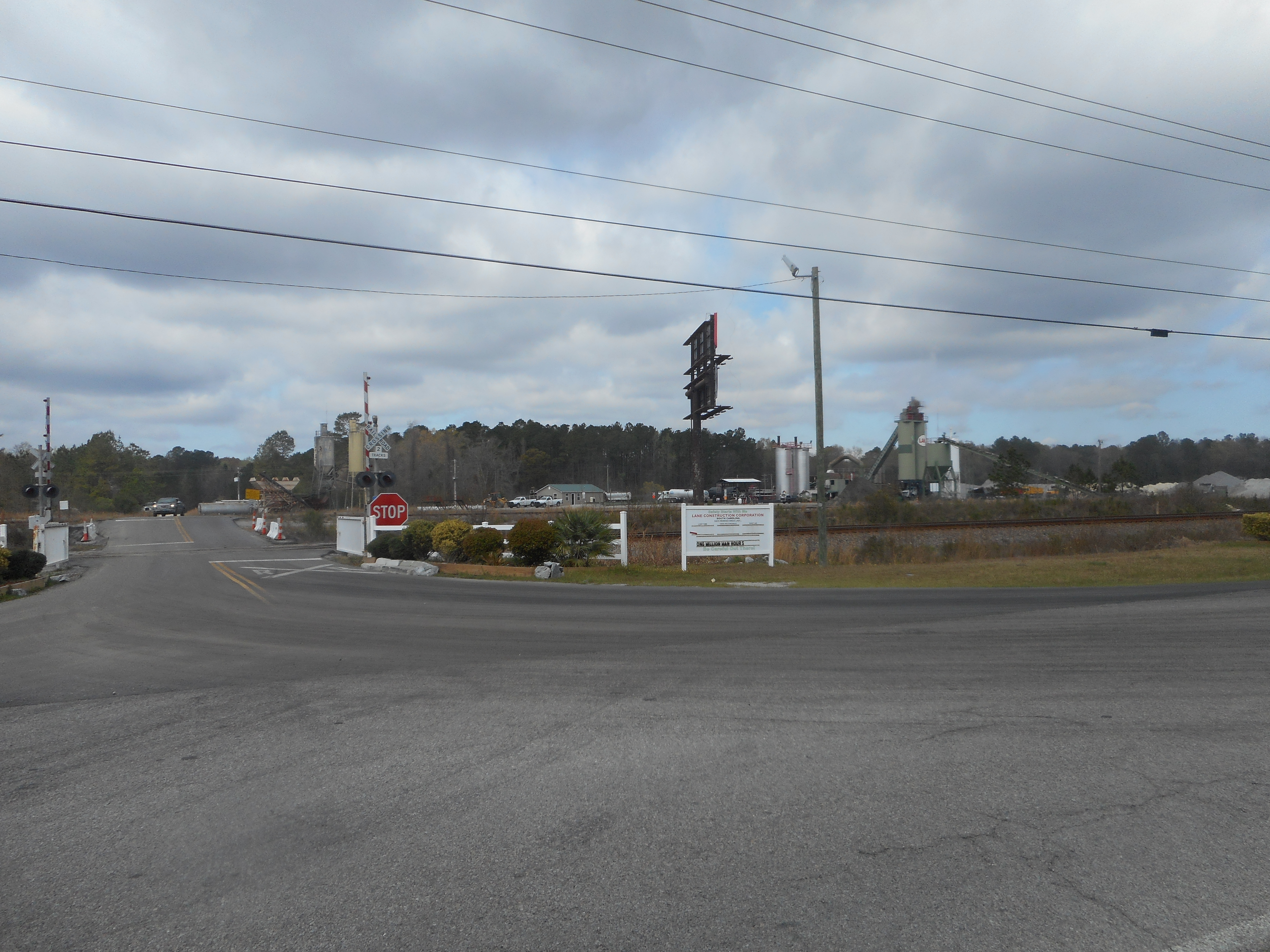 The entrance to a moderately-sized construction yard owned by Lane Construction Company off of Nuna Rock Road north of Ridgeland, South Carolina. Nuna Rock Road used to be US 17 until it was downgraded to a frontage road along the west side of southbound Interstate 95, and US 17 was relocated into an overlap with I-95 between Exits 22 and 33. The construction yard and the private railroad crossing can be seen from the southbound lanes of I-95, though I was hoping to find more private railroad crossings that are also visible from the interstate.